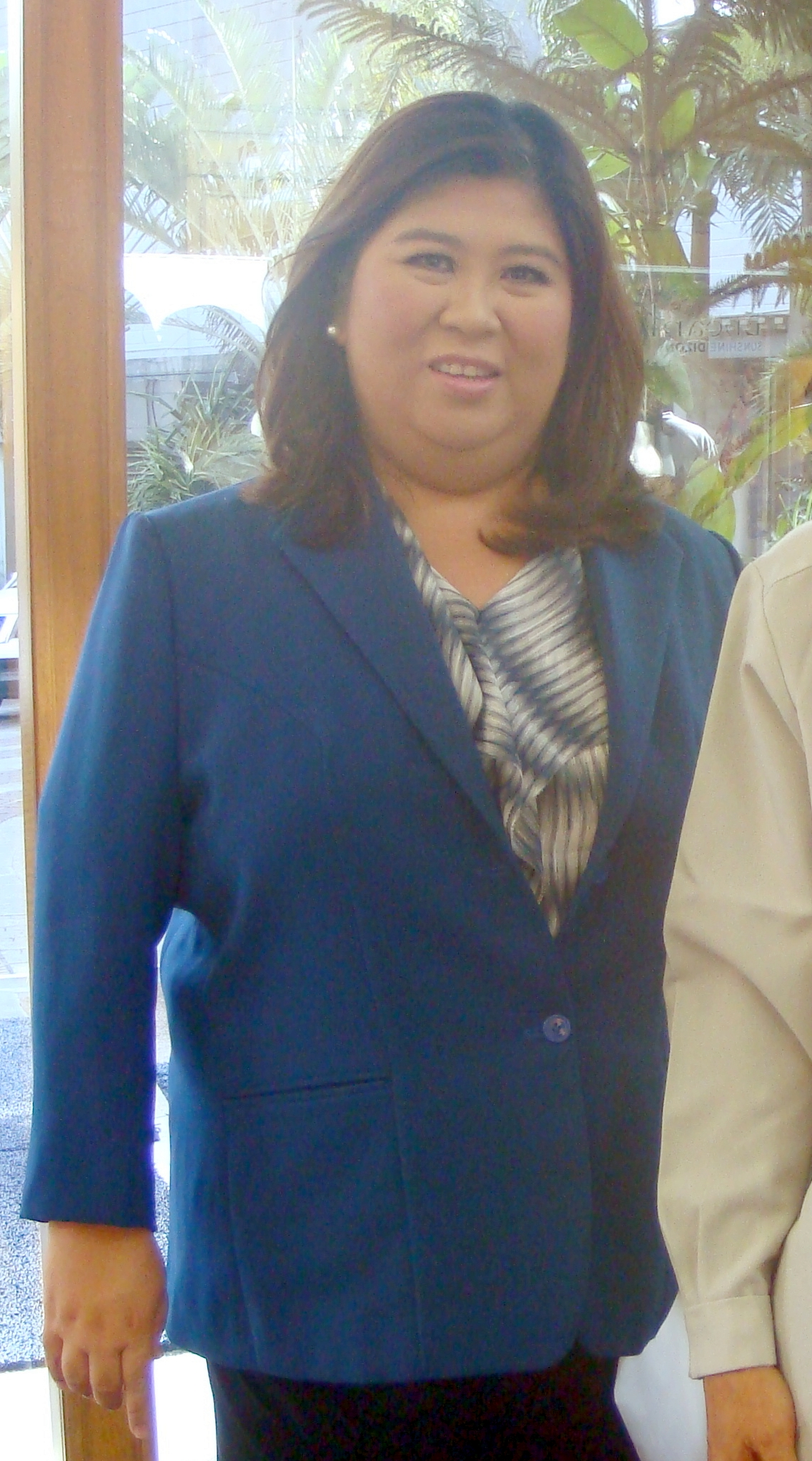 Portrait of Jessica Soho